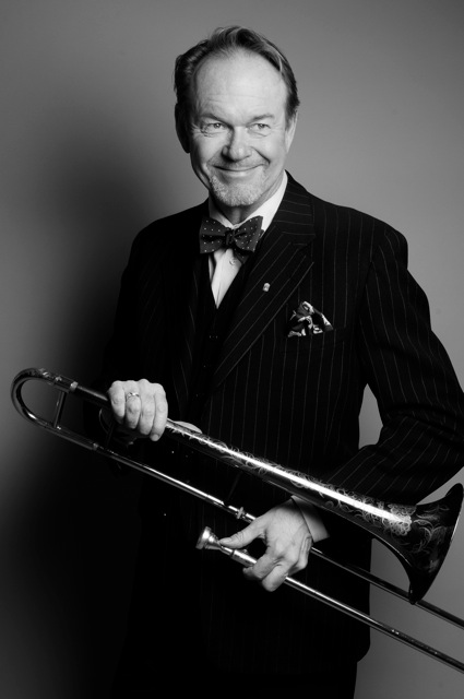 Ulf Johansson Werre 2011